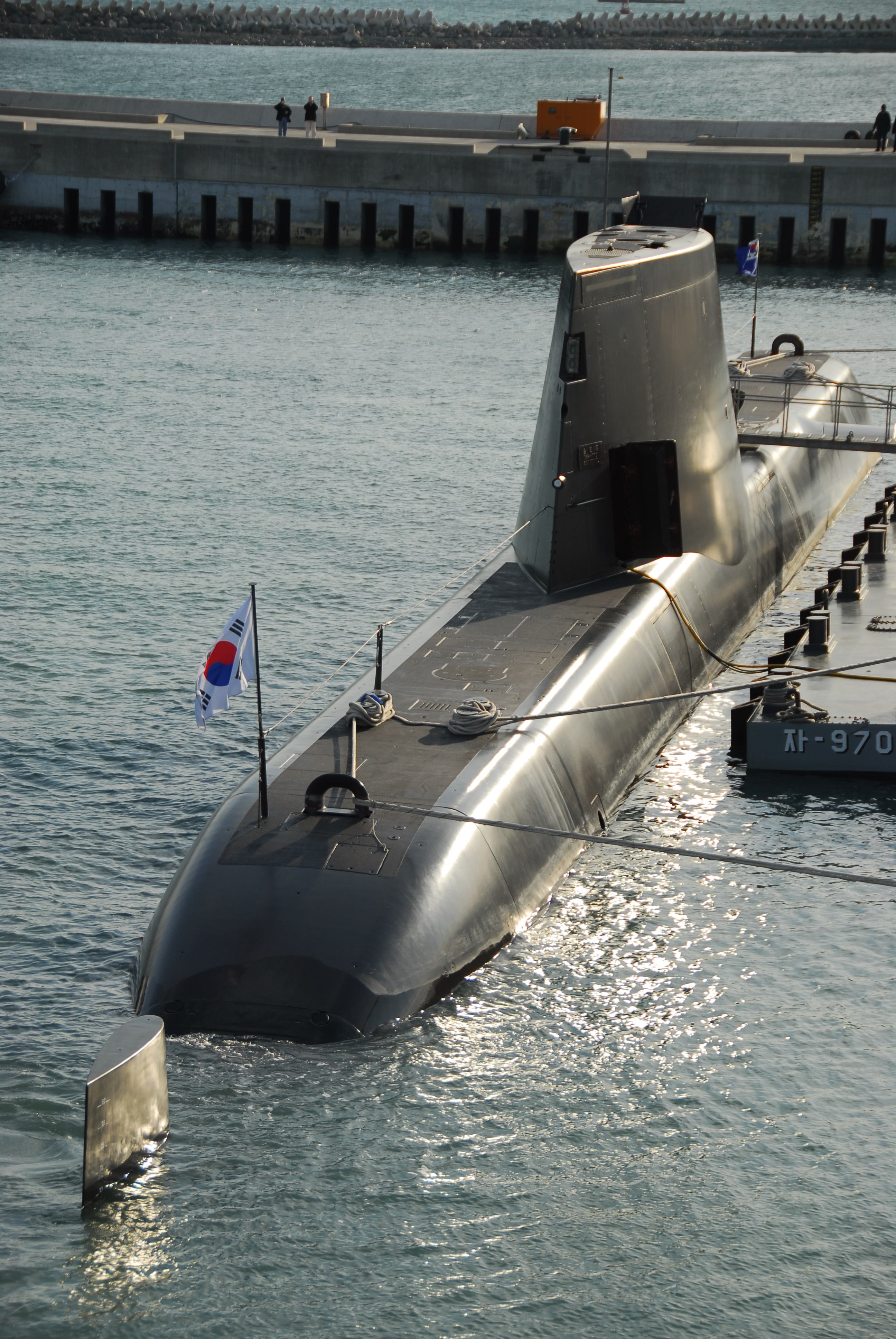 In March 2008 forces from the U.S. and the Republic of Korea launched Key Resolve - an annual joint military exercise focused on the rapid deployment of American troops to the Korean Peninsula.The ROKS Son Won-il (SS 072), a Type 214 submarine, in Busan Naval Base, Republic of Korea.